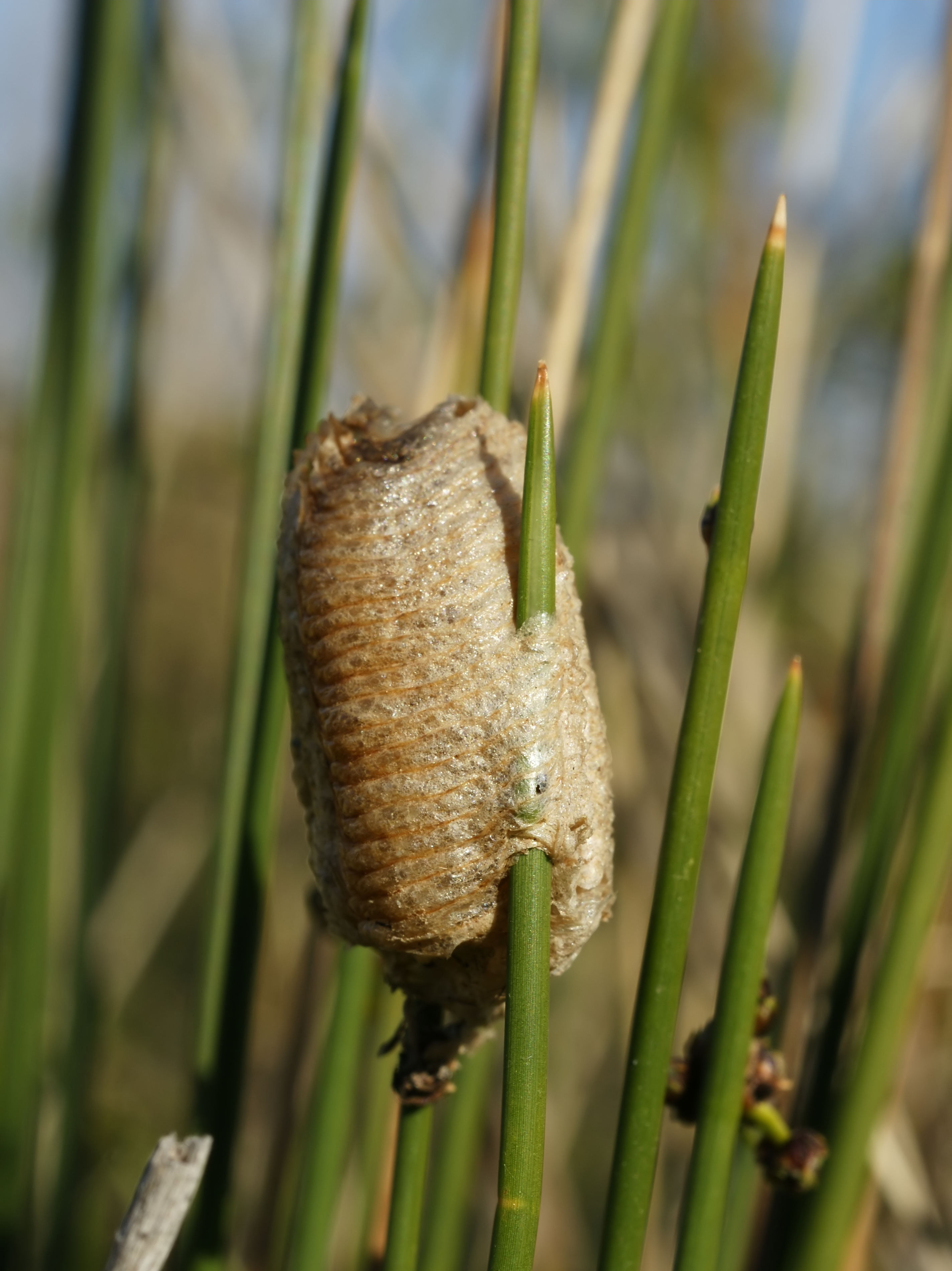 Ootheca (egg case) of praying mantis. Sardinia, Italy